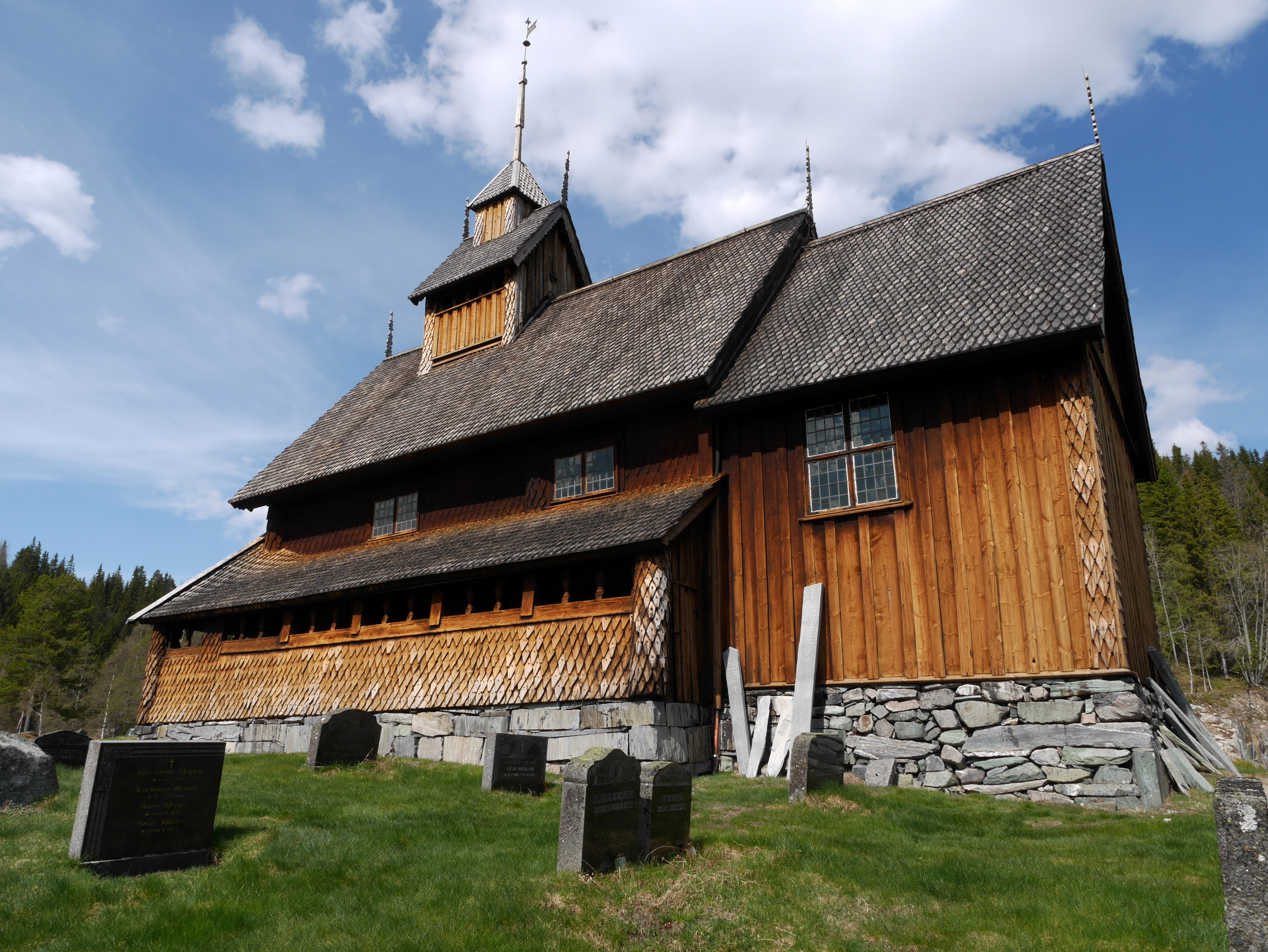 outside